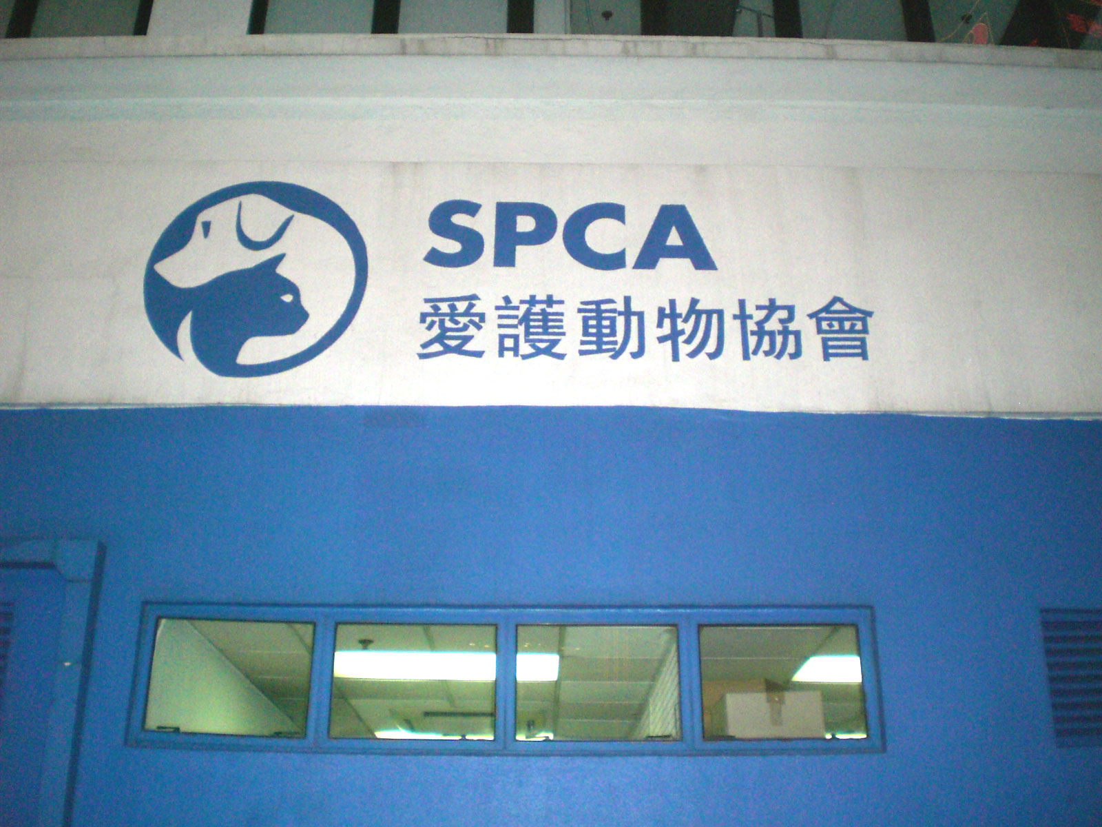 灣仔馬師道香港愛護動物協會, Society for the Prevention of Cruelty to Animals (Hong Kong)